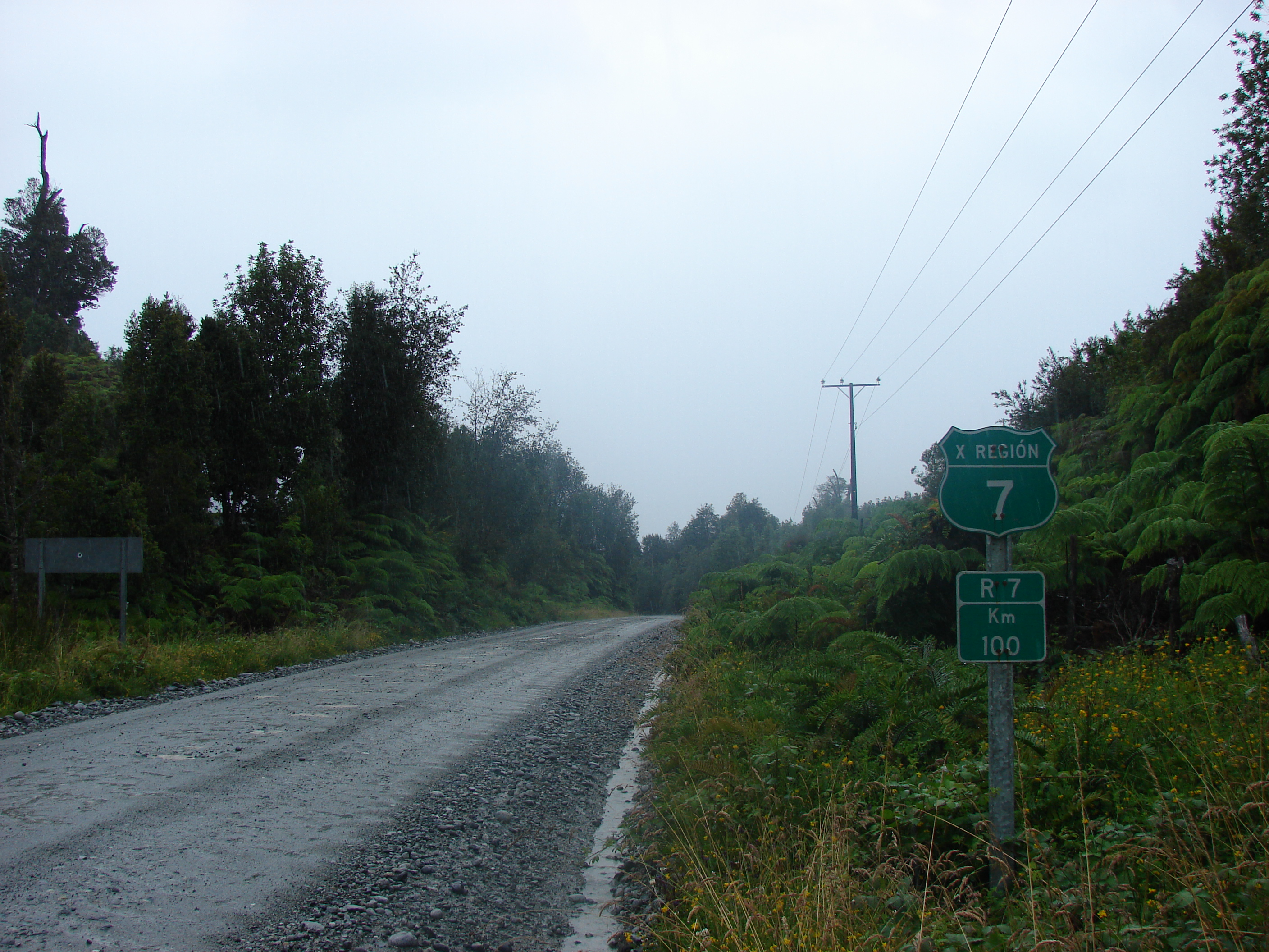 The road near the south-bound 100km marker for Carretera Austral (Ruta 7) in southern Chile (Region X is the Los Lagos Region) on a rainy February day in 2010 (Austral Summer).